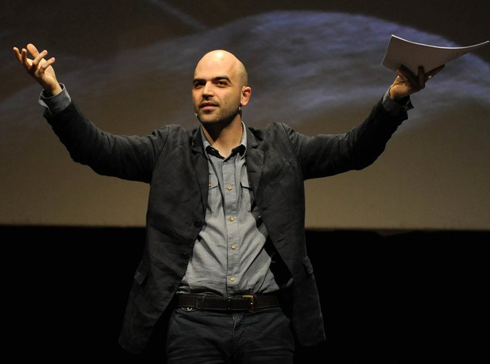 Roberto Saviano by Giancarlo Belfiore ijf10